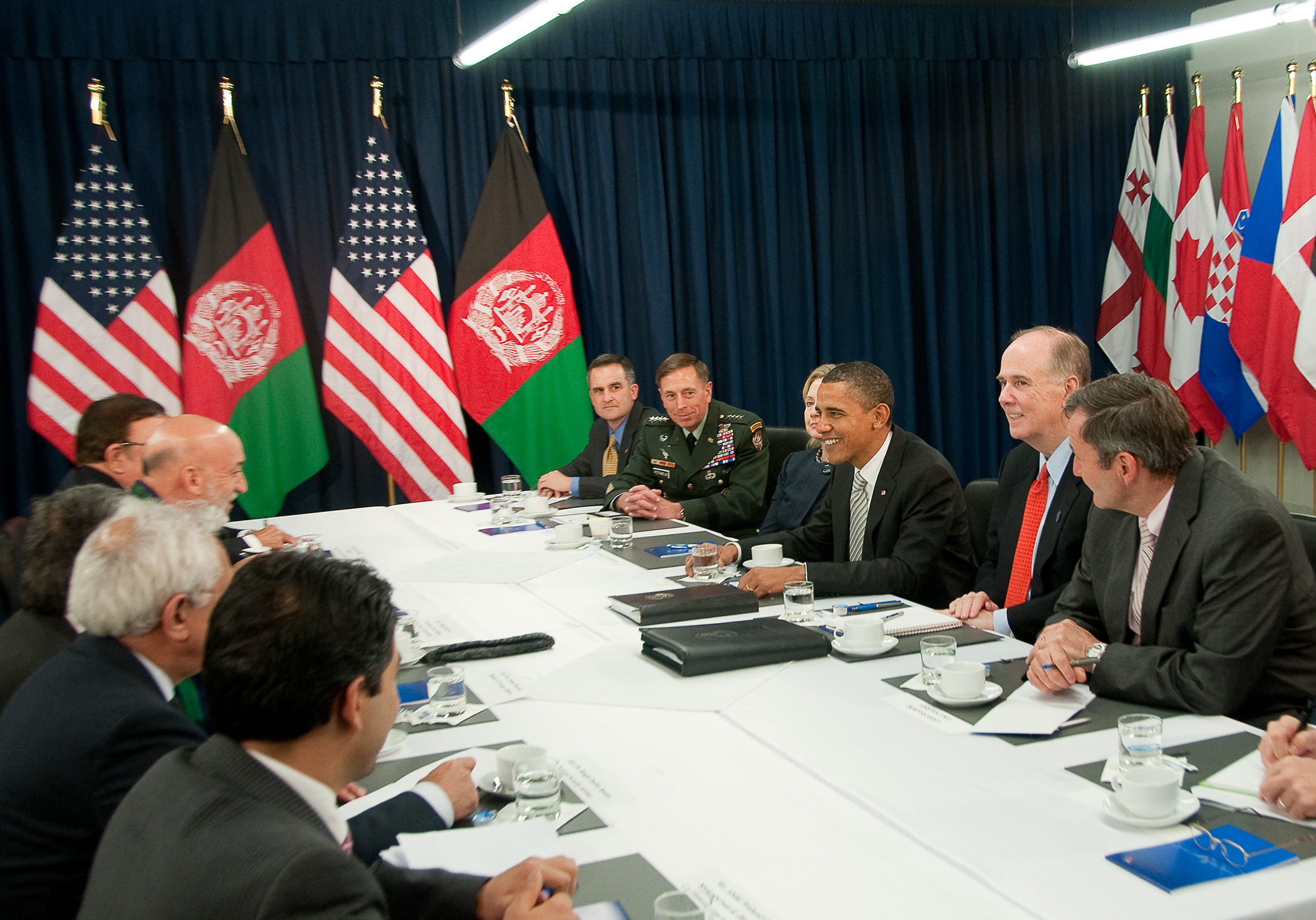 President of the United States, Barack Obama, President of Afghanistan, Hamid Karzai, U.S. Secretary of State, Hillary Clinton and Gen. David Petraeus, Commander of the International Security Assistance Force in Afghanistan, meet at the NATO Summit in Lisbon, Portugal, Nov. 20.